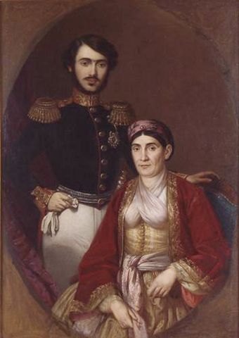 Ljubica i Milan Obrenovic